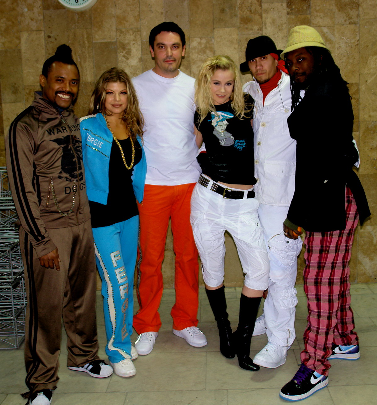 Stereolizza and The Black Eyed Peas (Palace of Sports, Kiev, Ukraine)